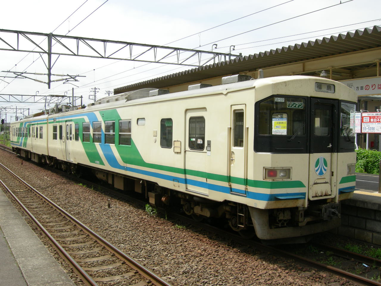 Abukuma Kyuko 8100 series EMU at Tsukinoki Station